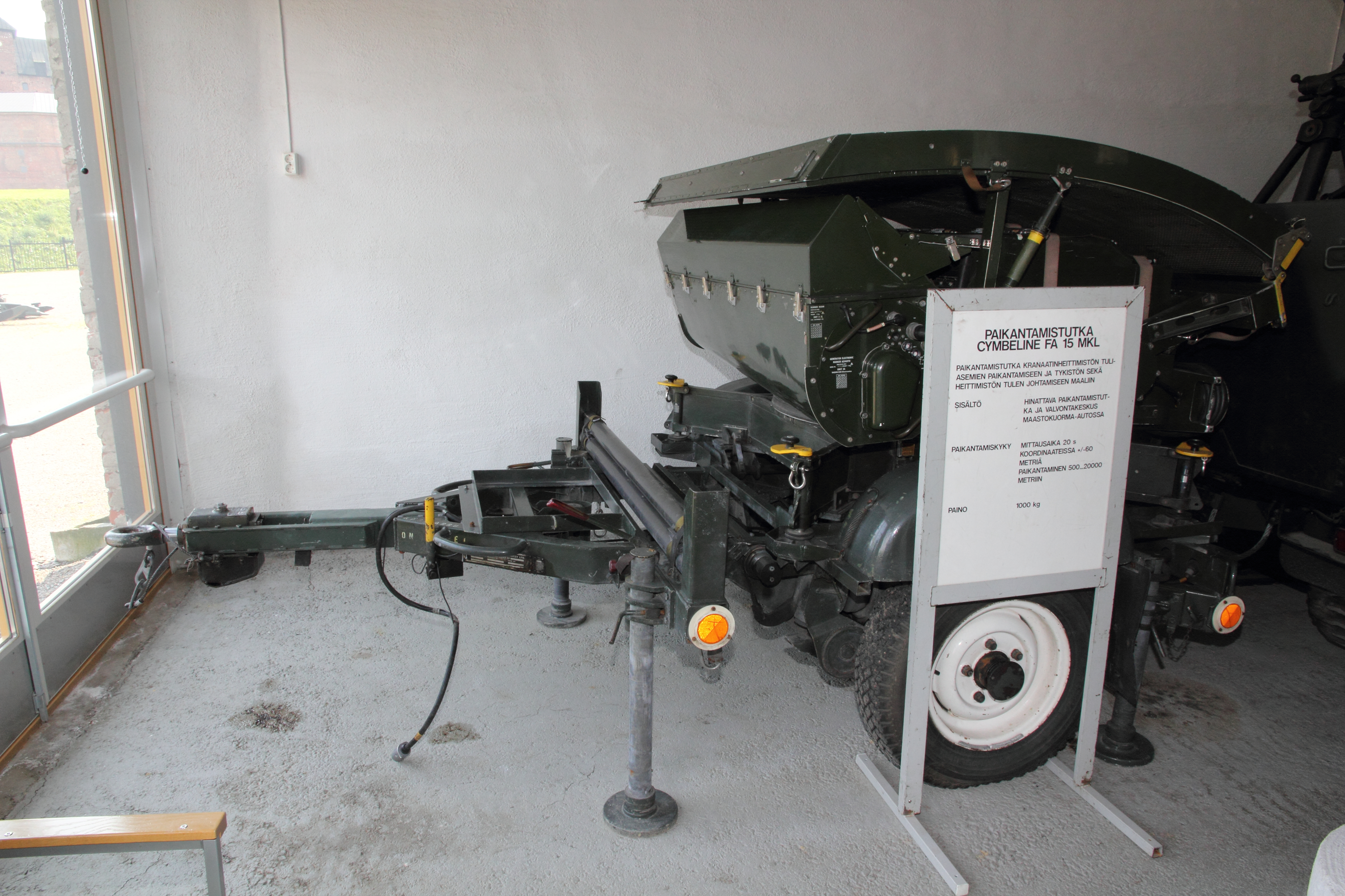 Cymbeline FA 15 mortar locating radar in Hämeenlinna artillery museum.